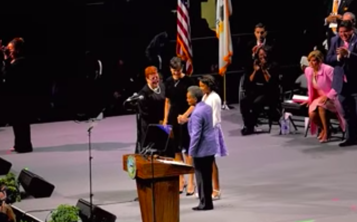 Lori Lightfoot